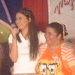 Tagalog: Photo of Nadine Samonte and Tessbomb taken at a QTV event held at SM Fairview on March 5, 2006. Photo taken by Doberdog.